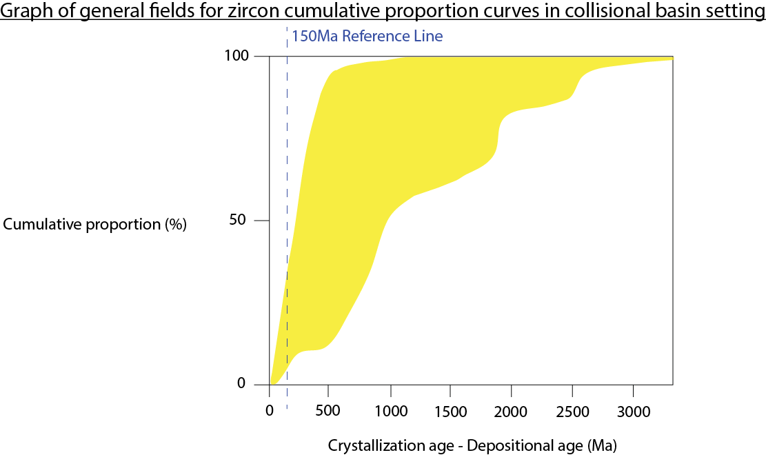 Graph illustrating the generalized zone for cumulative proportional curves of CA-DA in collisional basins